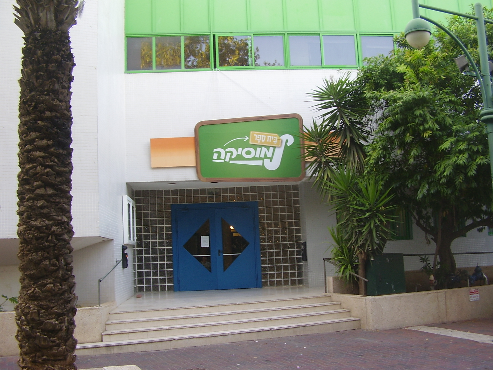 russel cultural center in ramat gan מרכז תרבות ראסל ברמת גן